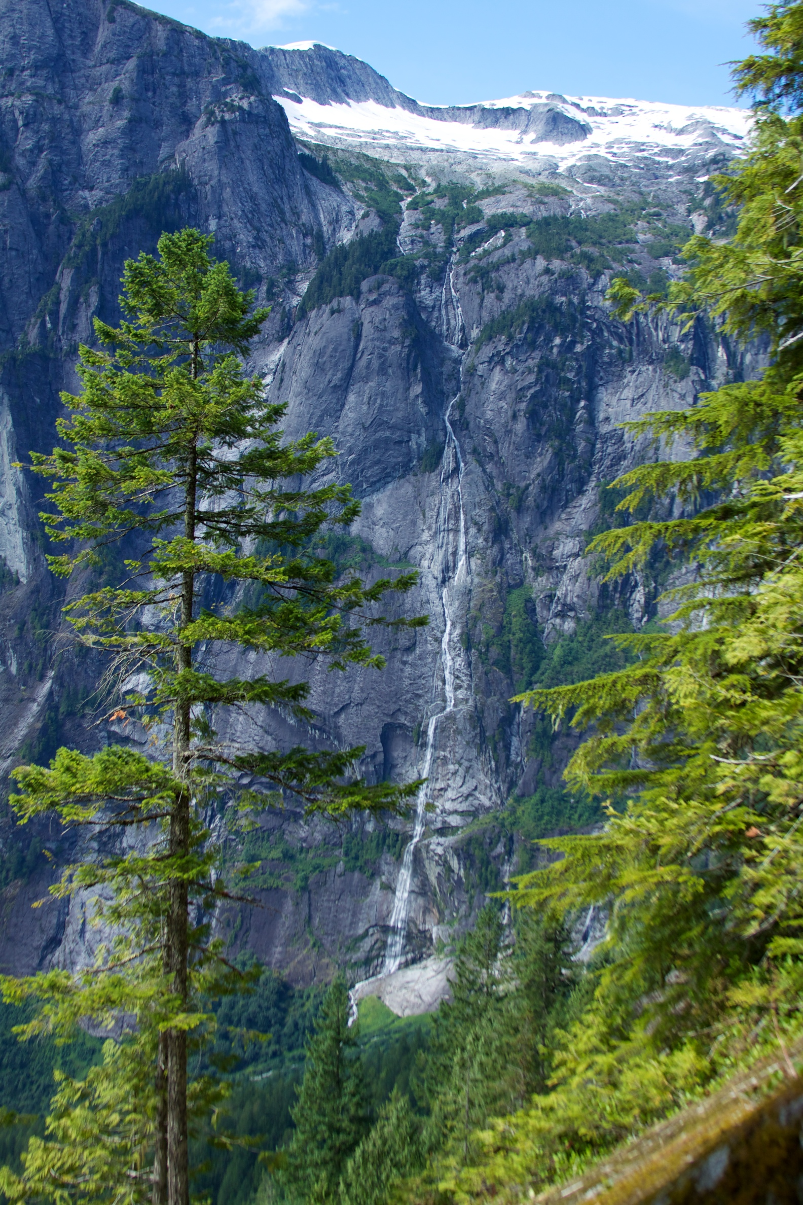 Amazingly unknown, James Bruce Waterfall is actually the highest measured waterfall in North America and the 9th highest in the world. Not a significant flow, it nonetheless is impressive to see as you come down the trail, dropping nearly straight down 840m (2755ft)